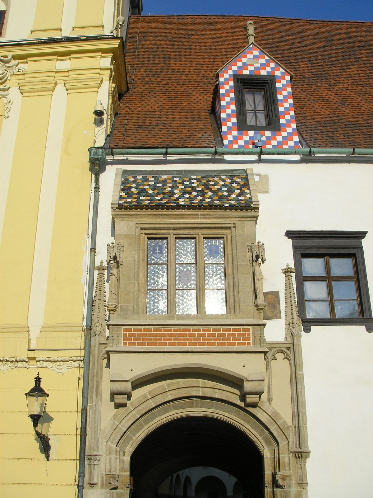 Image of the Old Towne Hall (Stará radnica) in Bratislava, at the old town square.